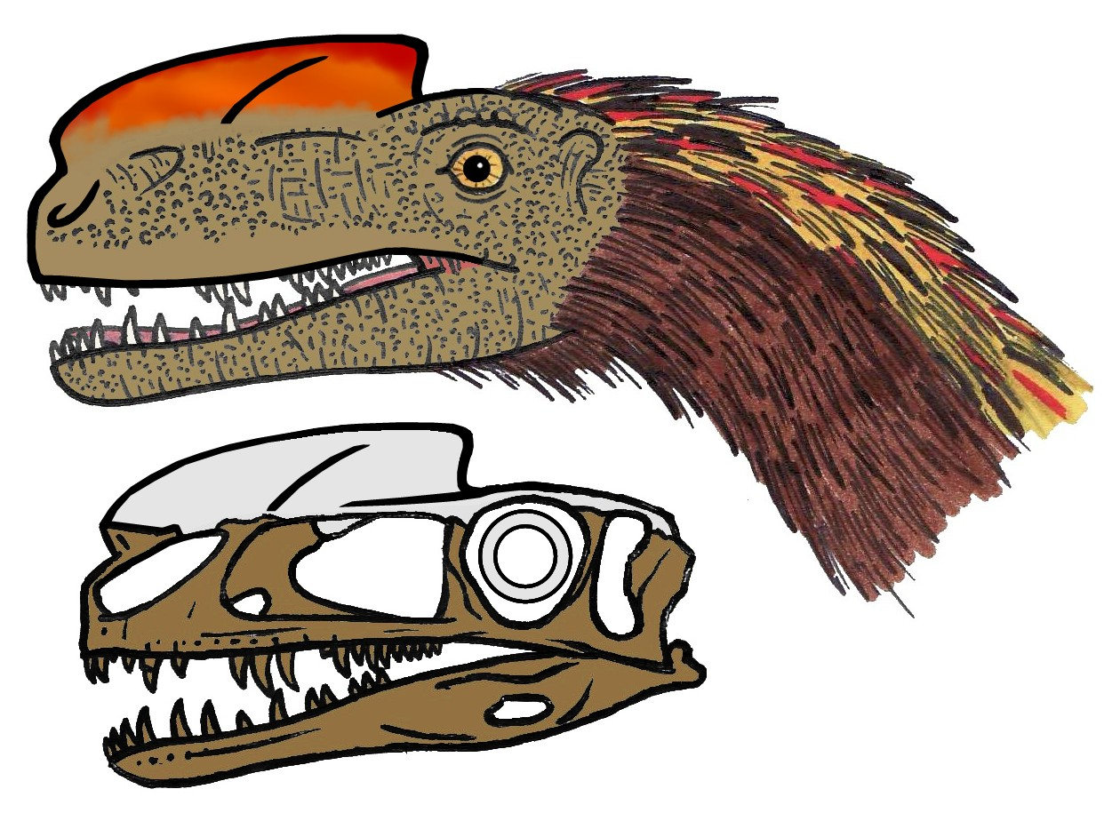 Drawing of skull from the theropod dinosaur Proceratosaurus bradleyi, a tyrannosauroid from United Kingdom, late jurassic period. Proceratosaurus skull measured about 30 cm. References Proceratosaurus skull (from the right). Proceratosaurus skull (from the left).